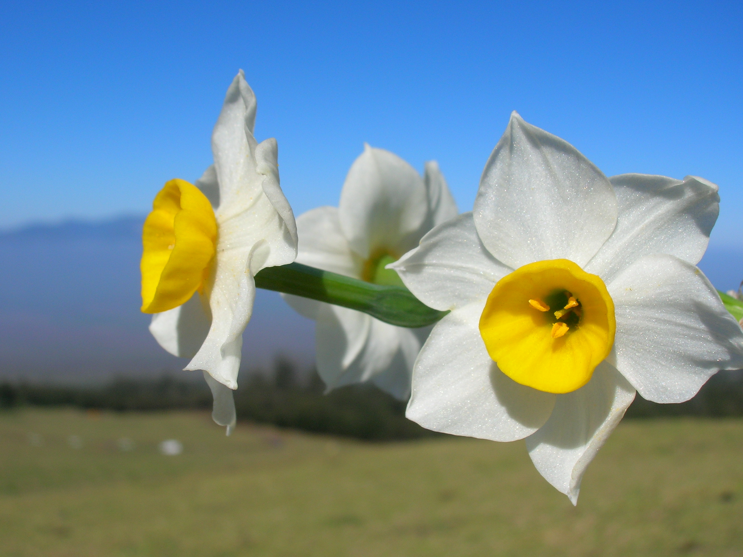 Narcissus tazetta (flowers). Location: Maui, Polipoli